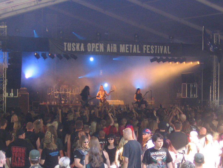 Finnish heavy metal group Norther performing at Tuska Open Air Metal Festival 2006.